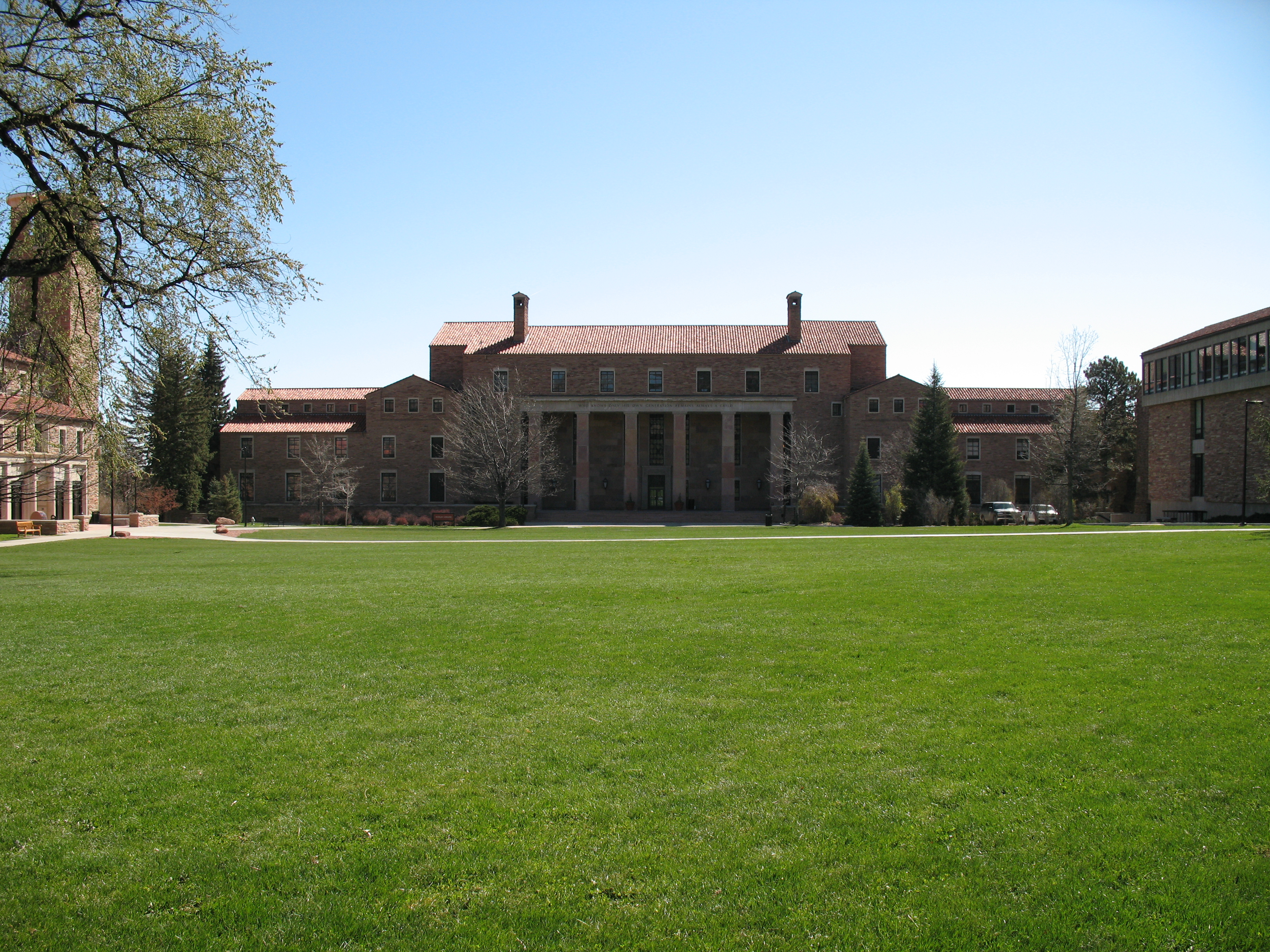 Norlin Library at the University of Colorado at Boulder campus.